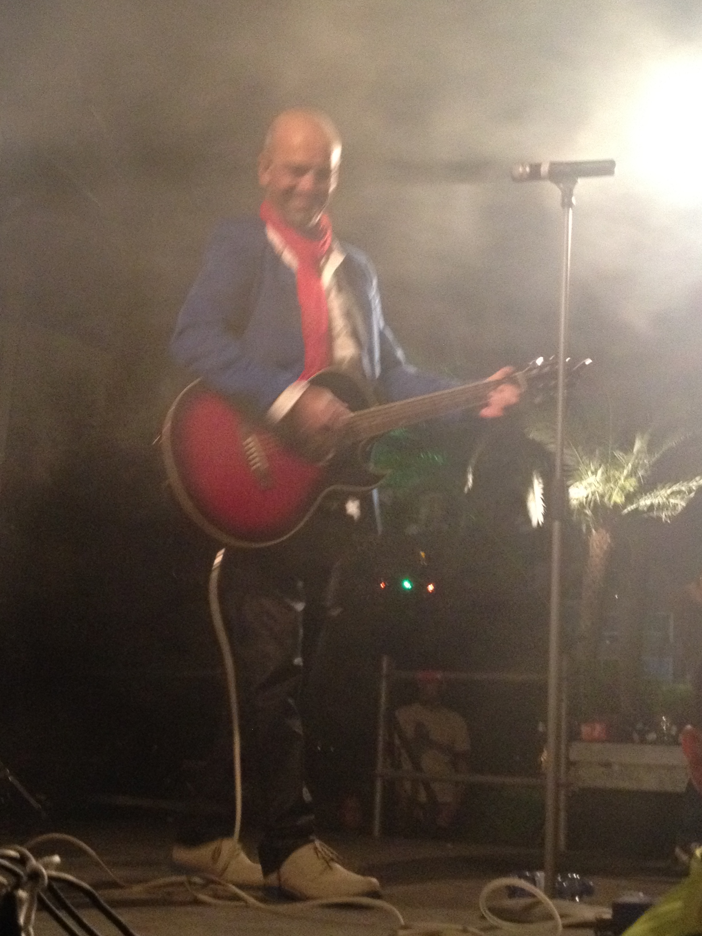 Pavlo Rozenberg in Eilat.